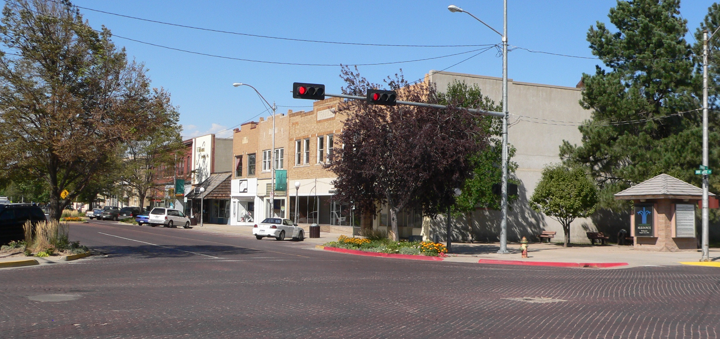 Downtown Alliance, Nebraska: corner of Third Street and Box Butte Avenue, looking northeast.